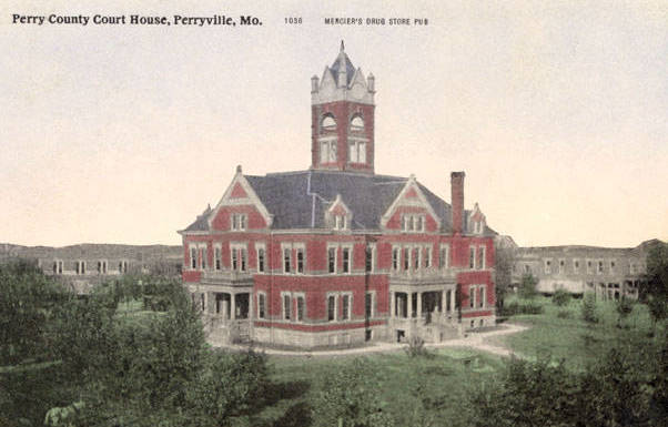 Post card. View of the "new" County Court House, Perry County, Missouri, 1909 or before.